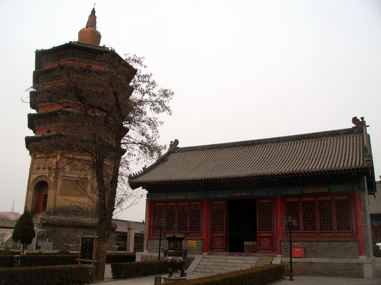 Tianning Temple in Anyang.